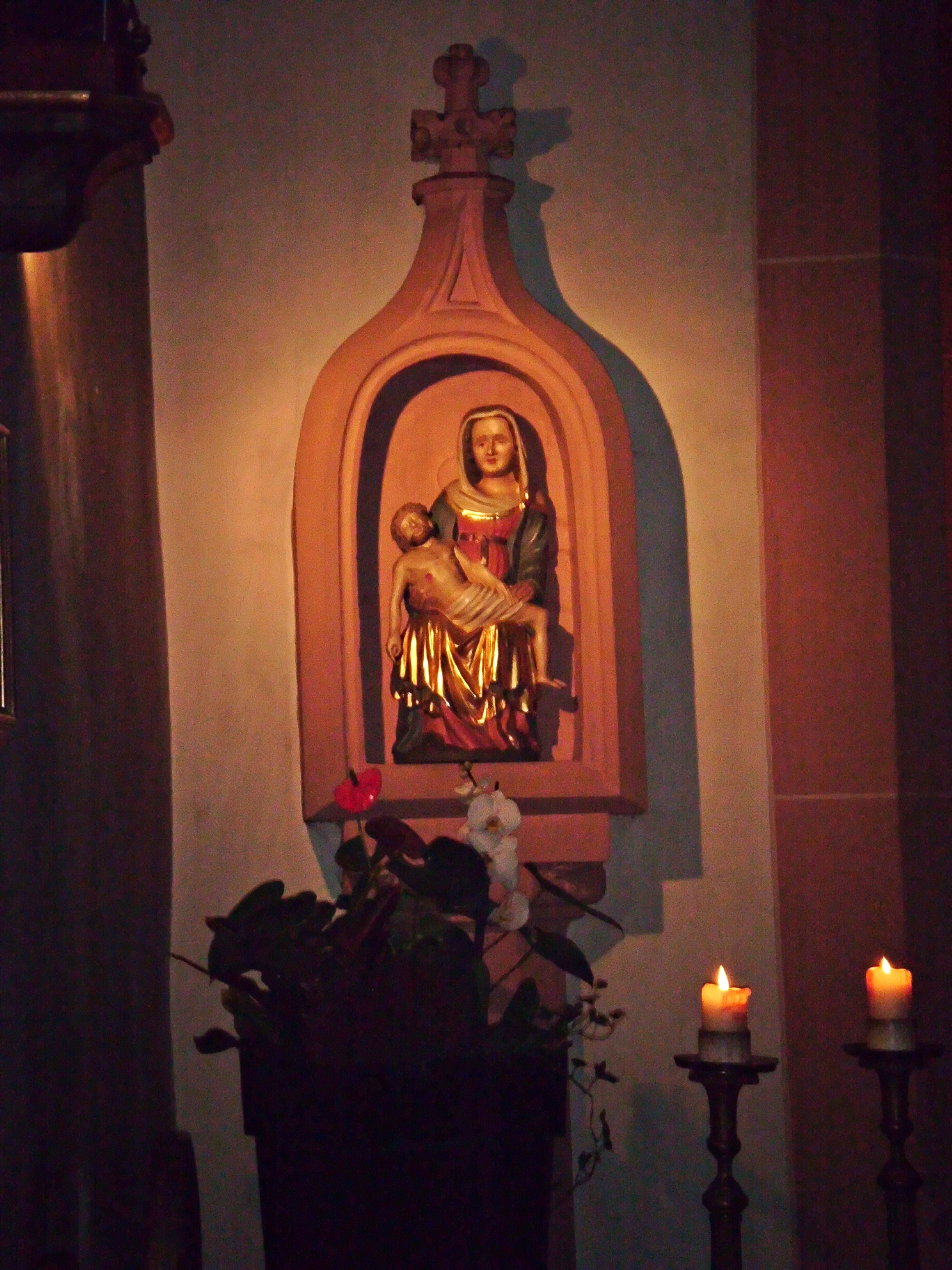 Gernsheim Wallfahrtskirche, altes Gnadenbild